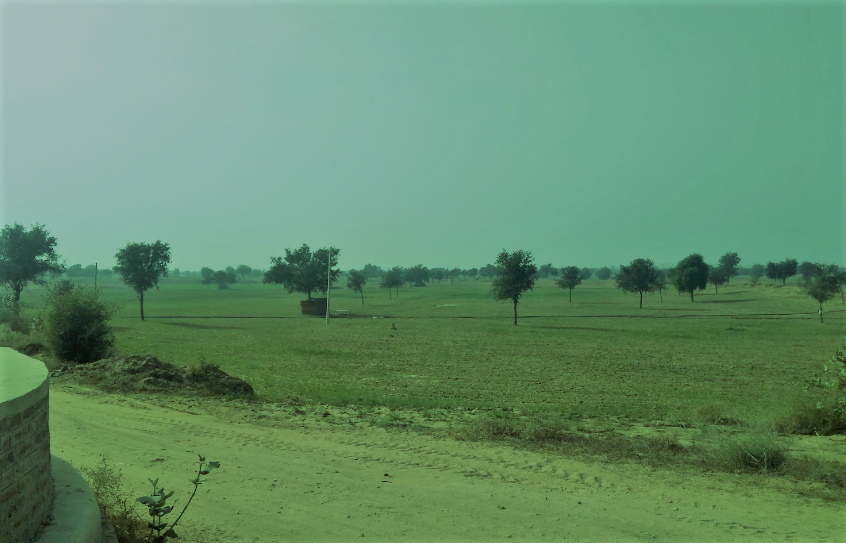 this is fields of village raiya tunda